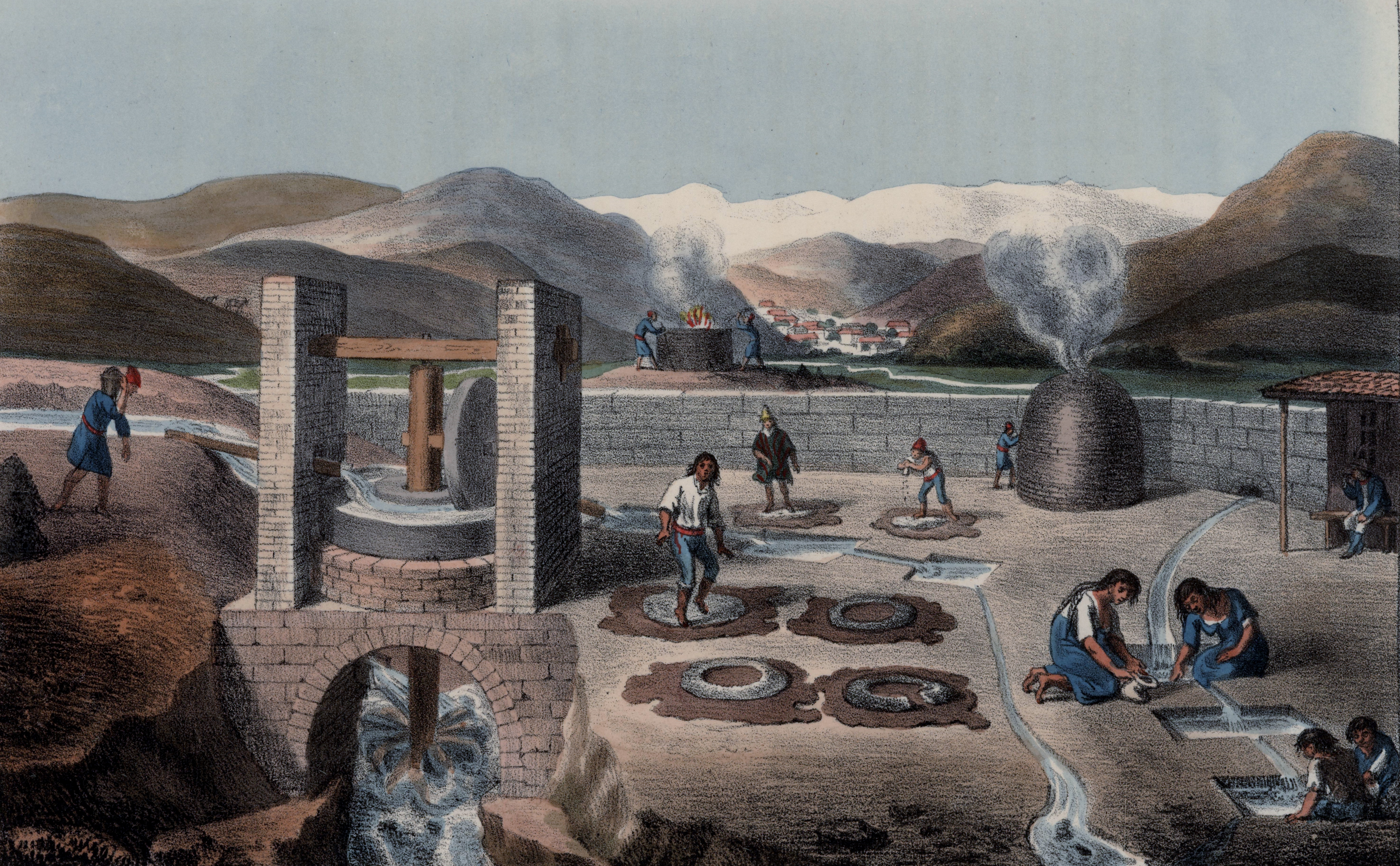 Labores de plata y cobre en Chile; dibujo del viajero y filántropo inglés Peter Schmidtmeyer; litografía coloreada de George Johann Scharf; impresa por Rowney & Forster y publicada en el libro del Travels into Chile, over the Andes, in the years 1820 and 1821, London: Longman, Hurst, Rees, Orme, Brown and Green, 1824.